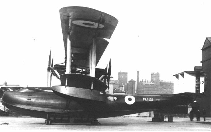 Photograph of the Fairey Titania